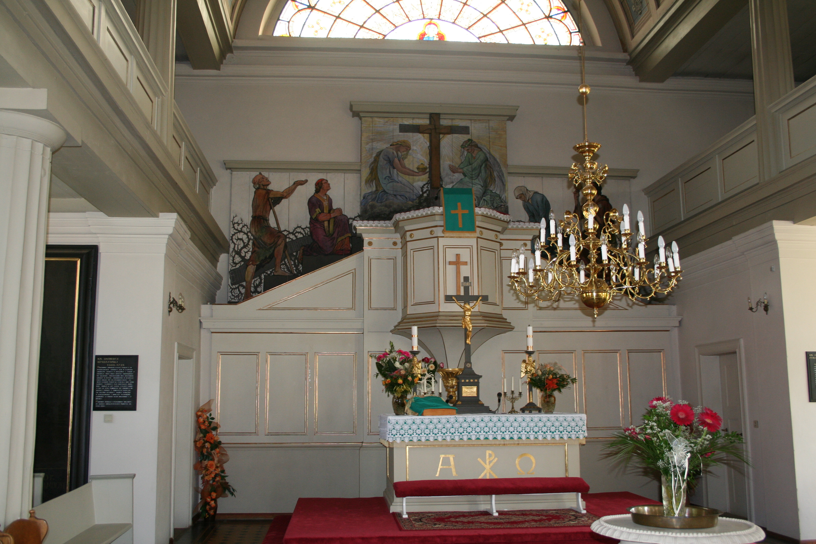 Holy Trinity church in Mikołajki